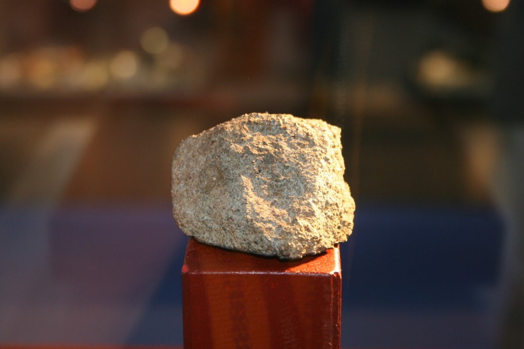 Eichstädt meteorite, H5